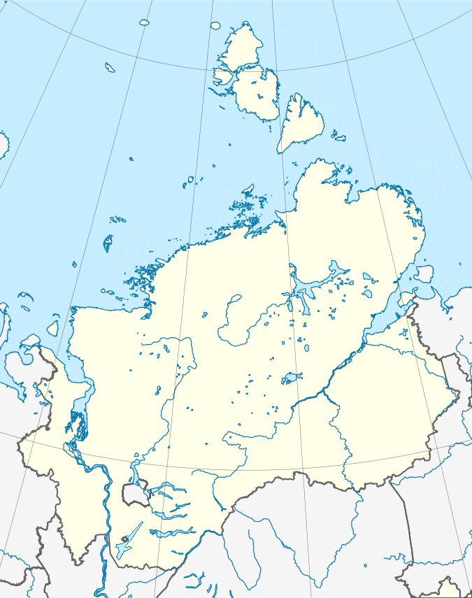 Location map of Taymyrsky Dolgano-Nenetsky District. Equidistant conic projection. Longitude and latitude of the projection center: 96° / 73° Two standard parallels: 66° / 74°